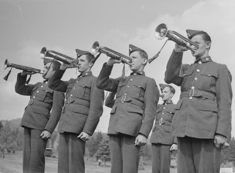 Griffintown Air Cadet sound the bugle outside the hotel "Alpine Inn" in Sainte-Marguerite-du-Lac-Masson in the Laurentians.